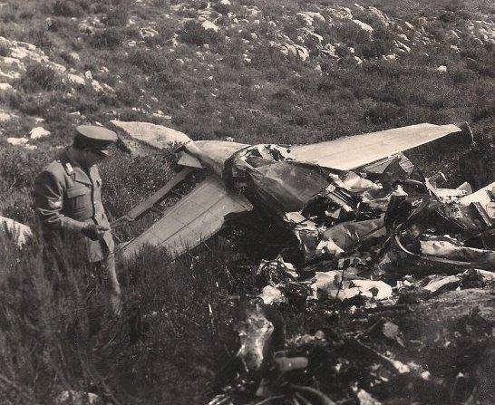 14 october 1960. The de Havilland DH-114 Heron, registration I-AOMU, c/n 1409, operated by Itavia on a domestic scheduled flight from Roma Ciampino Airport to Genoa Cristoforo Colombo Airport with 11 passengers aboard, crashed into the slope of Mount Capanne (Elba Island) because of bad weather conditions.